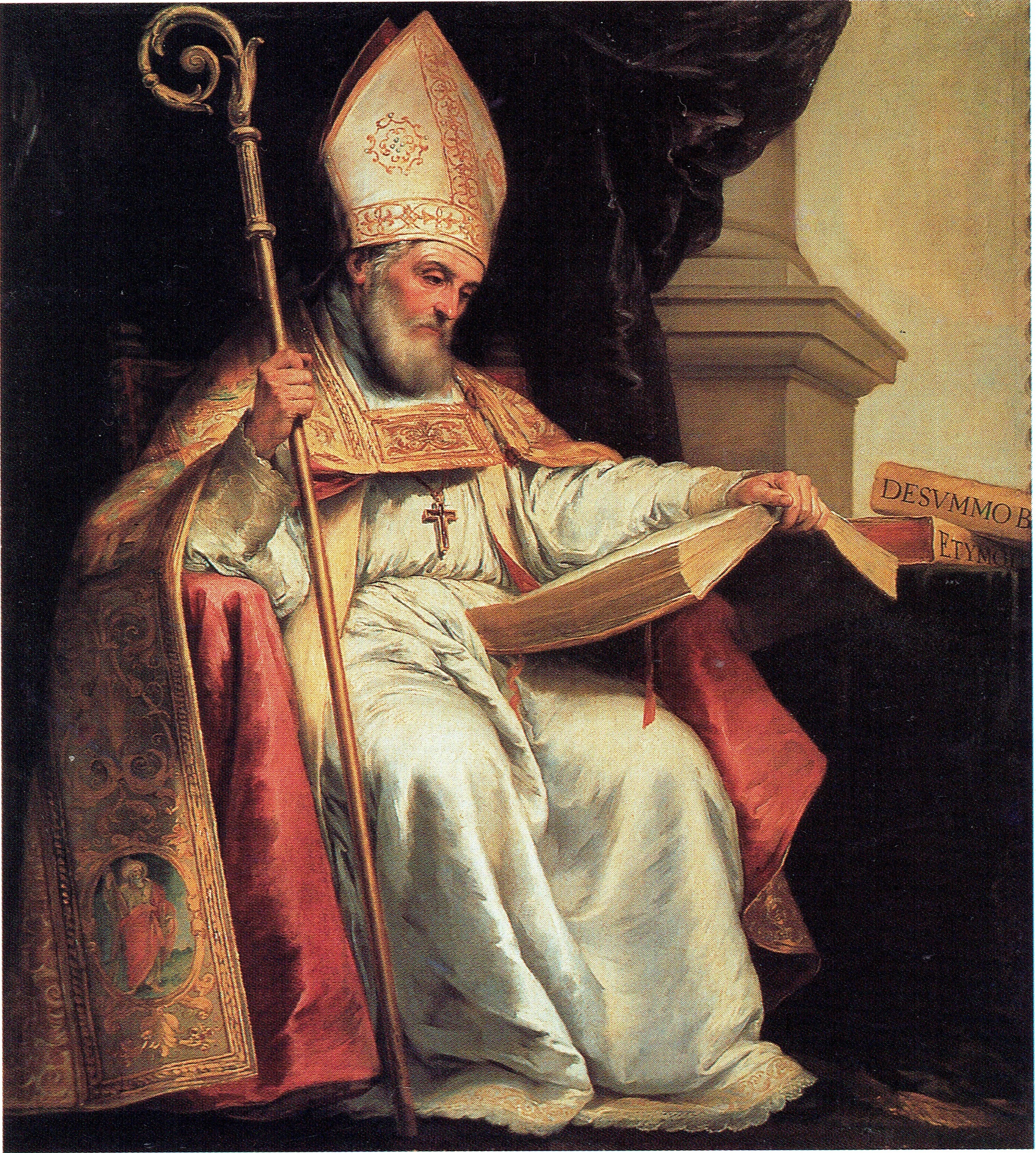 bishop, a 7th century Doctor of the Church, with a book, common iconographical object for a doctor